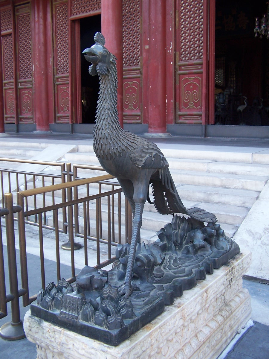 Summer Palace at Beijing, China